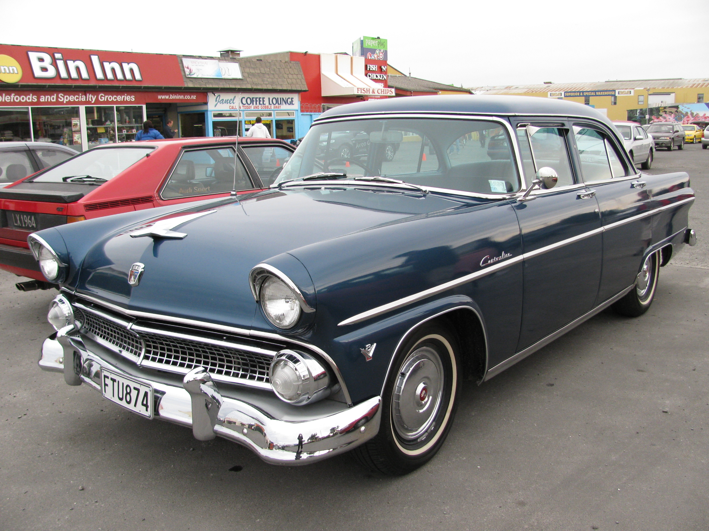 1955 Ford Customline Fordor Sedan. FTU874 A good turnout at the Henry Ford Run Meet in New Brighton this morning - there was a lot to see, including some non-Blue Oval vehicles as well, which you will soon see. This is one of the lesser-known Yank Fords in NZ, so it's nice to see someone thought outside the box when choosing what to import.